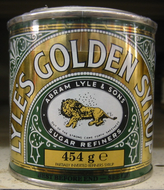 Lyle's Golden Syrup in a resealable tin. This image was created by Whitebox, and is licensed under the following license